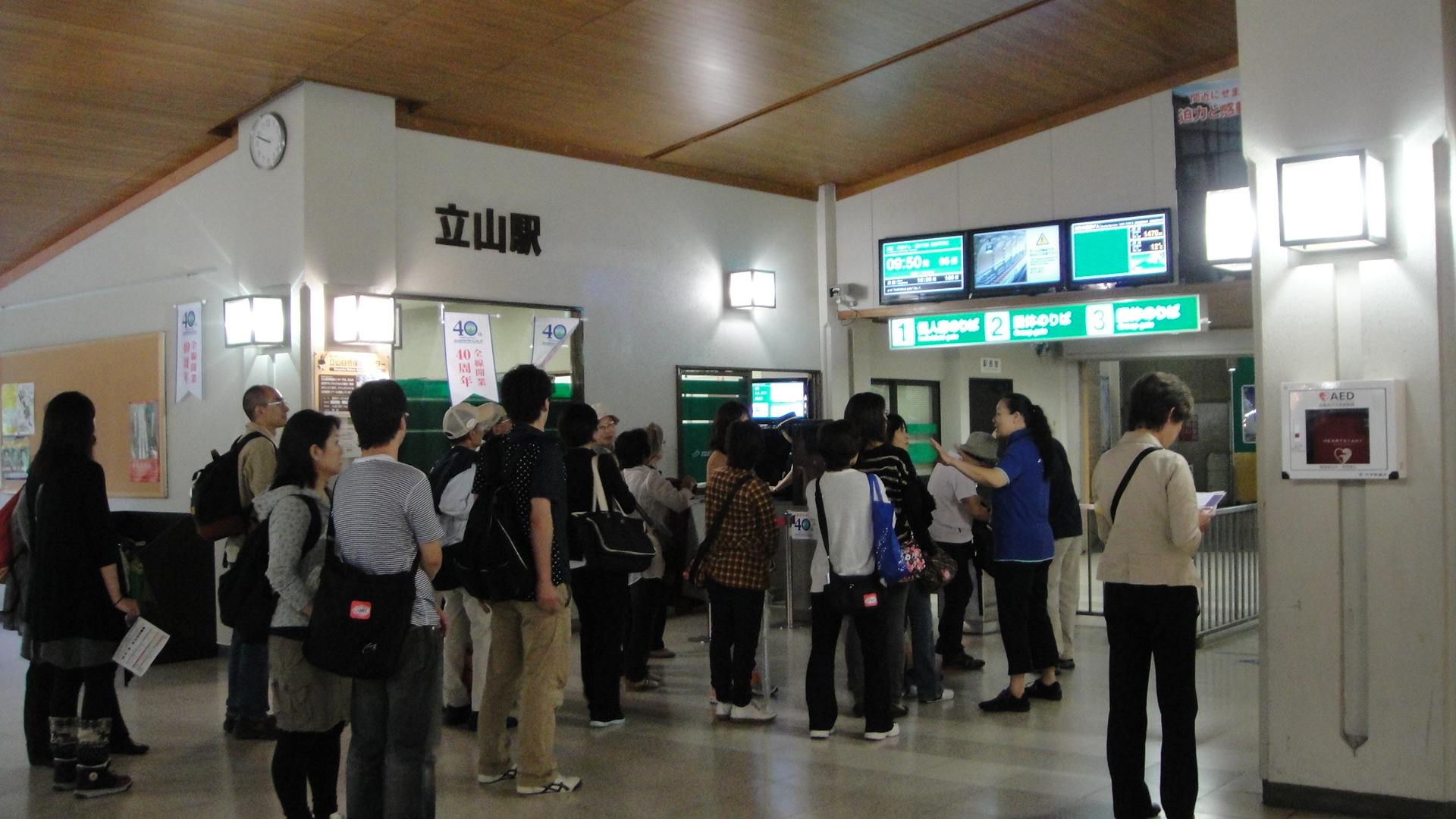 Ticket gate at Tateyama Cable Car Tateyama Station